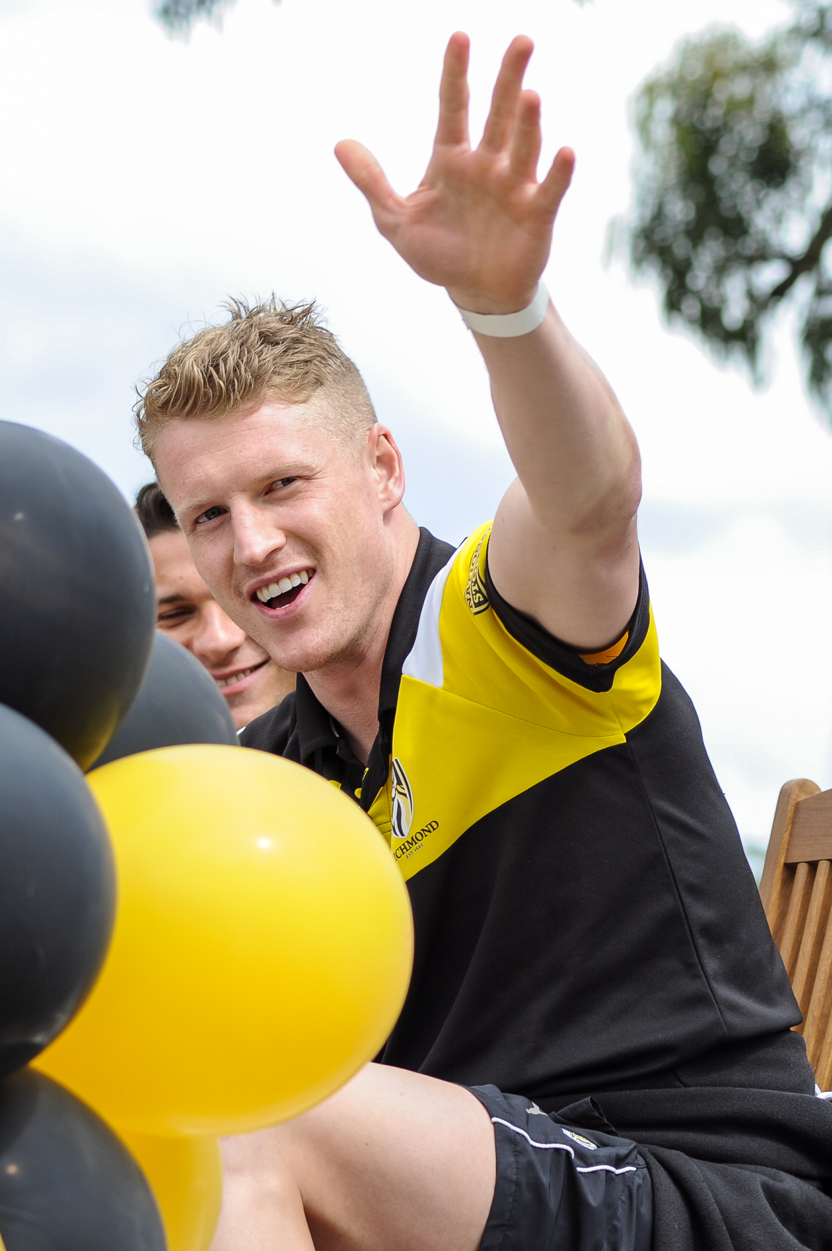 Josh Caddy at the 2017 AFL Grand Final parade on 29 September 2017 in Melbourne, Victoria.